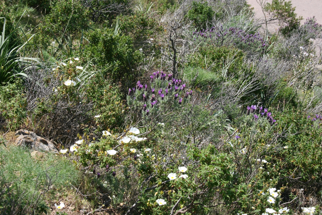 Corsican garrigue flowering at the end of April.